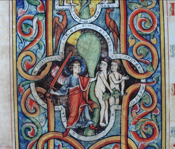 Bible of Lilienfeld